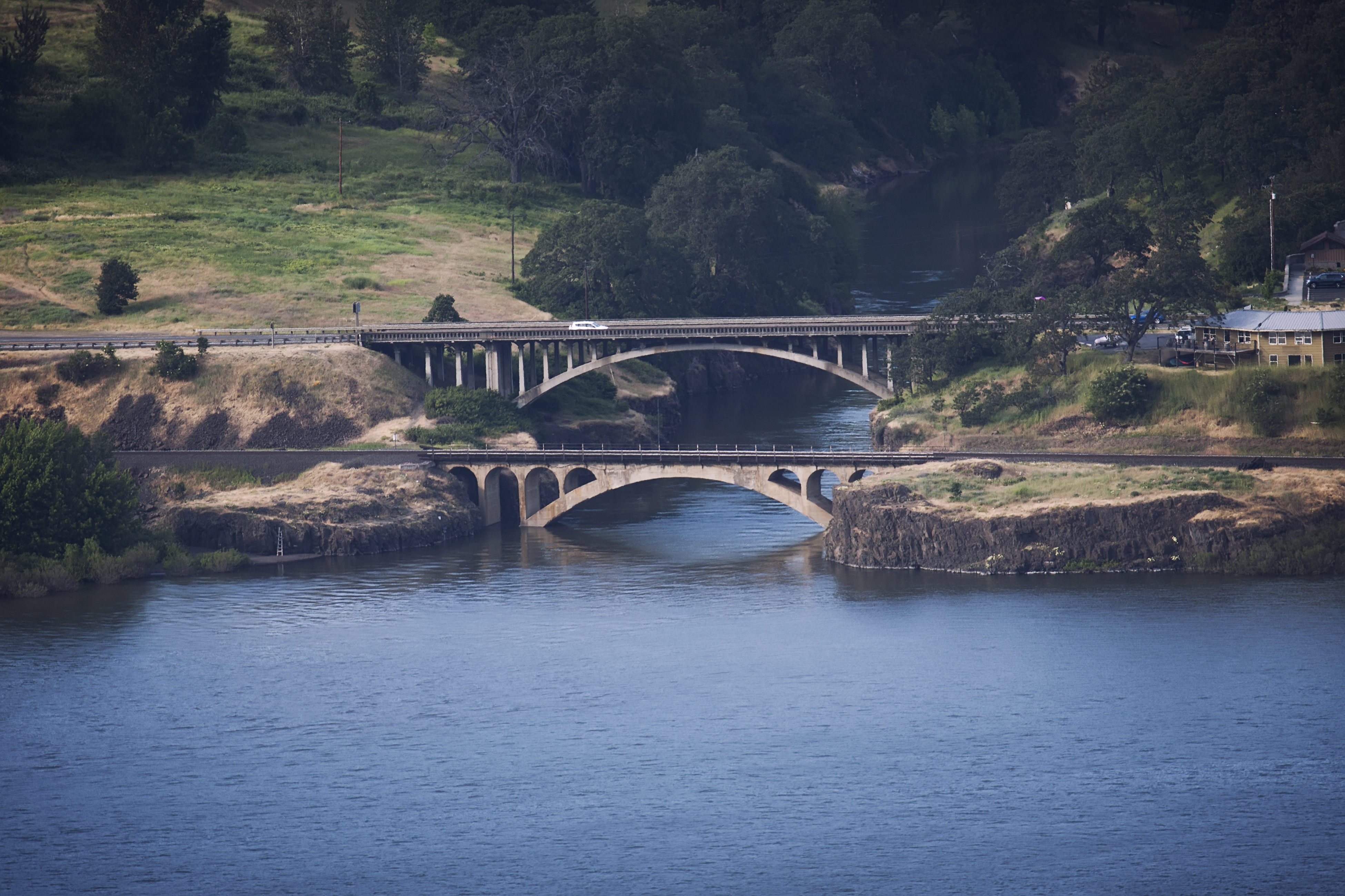 Klickitat River Bridges from Rowena Crest Viewpoint